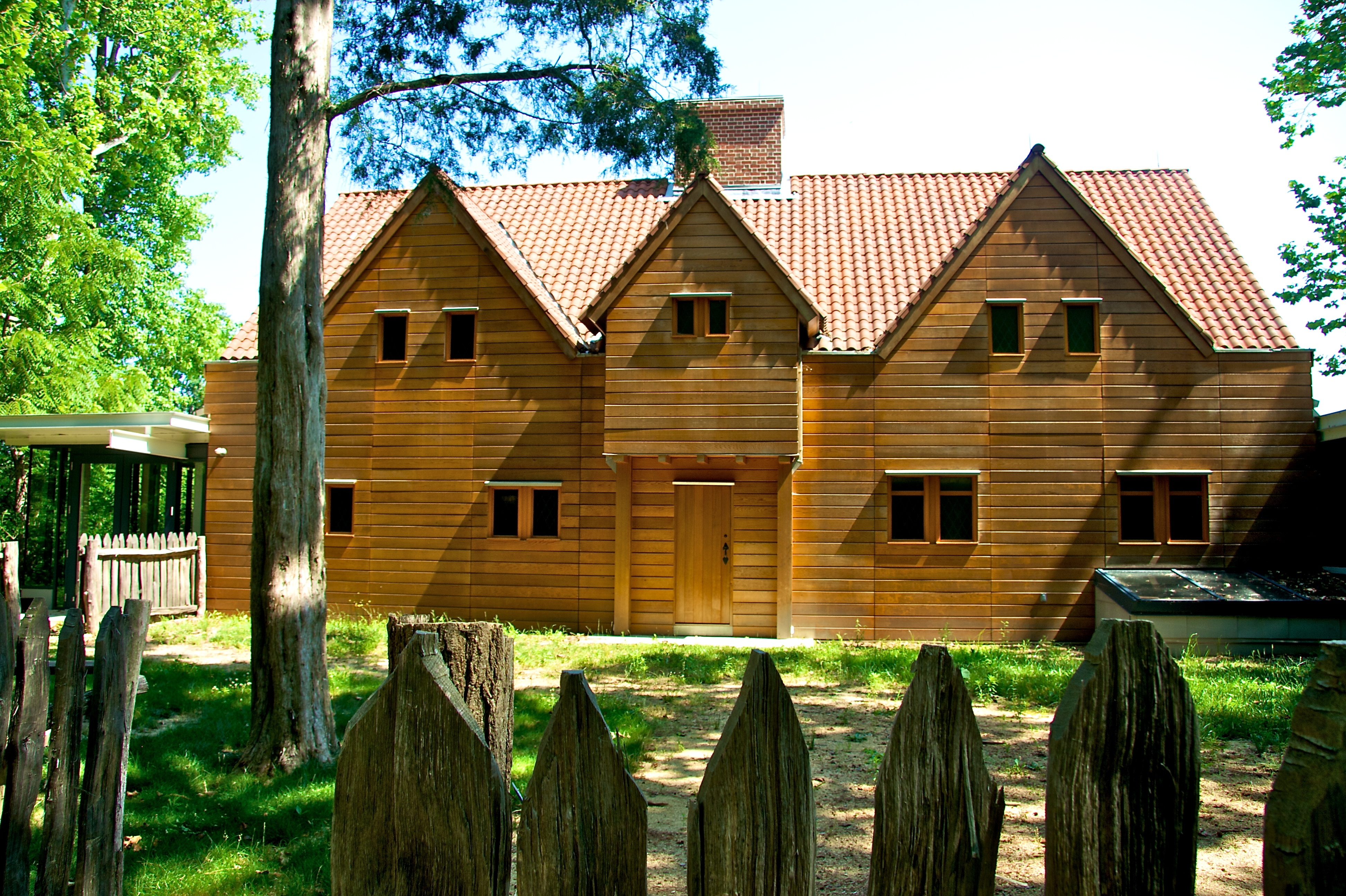 In 1638, Maryland’s first government administrator, John Lewger, built a new house at St. Mary’s City on a tract he named St. John’s. The Lewger home became the busy center of one of the earliest tobacco plantations in the colony, as well as being the site of colonial Maryland's first legislative assemby. in 1642, a freedman named Mathias de Sousa served in the Assembly and was the first person of African descent to vote in an American legislature. Six years later, Margaret Brent attended another meeting at St. John’s and requested the right to vote. Although denied to her, she became the first woman in American to ask for “voyce and vote” in government. In the 1660s, St. John’s became the home of Governor Charles Calvert, and during his occupation, Susquehannock Indian chiefs signed an important treaty there. Later, St. John’s served as a public ordinary or inn, and records office. After witnessing over 75 years of Maryland’s early history, St. John’s finally succumb to decay and was abandoned around 1715.